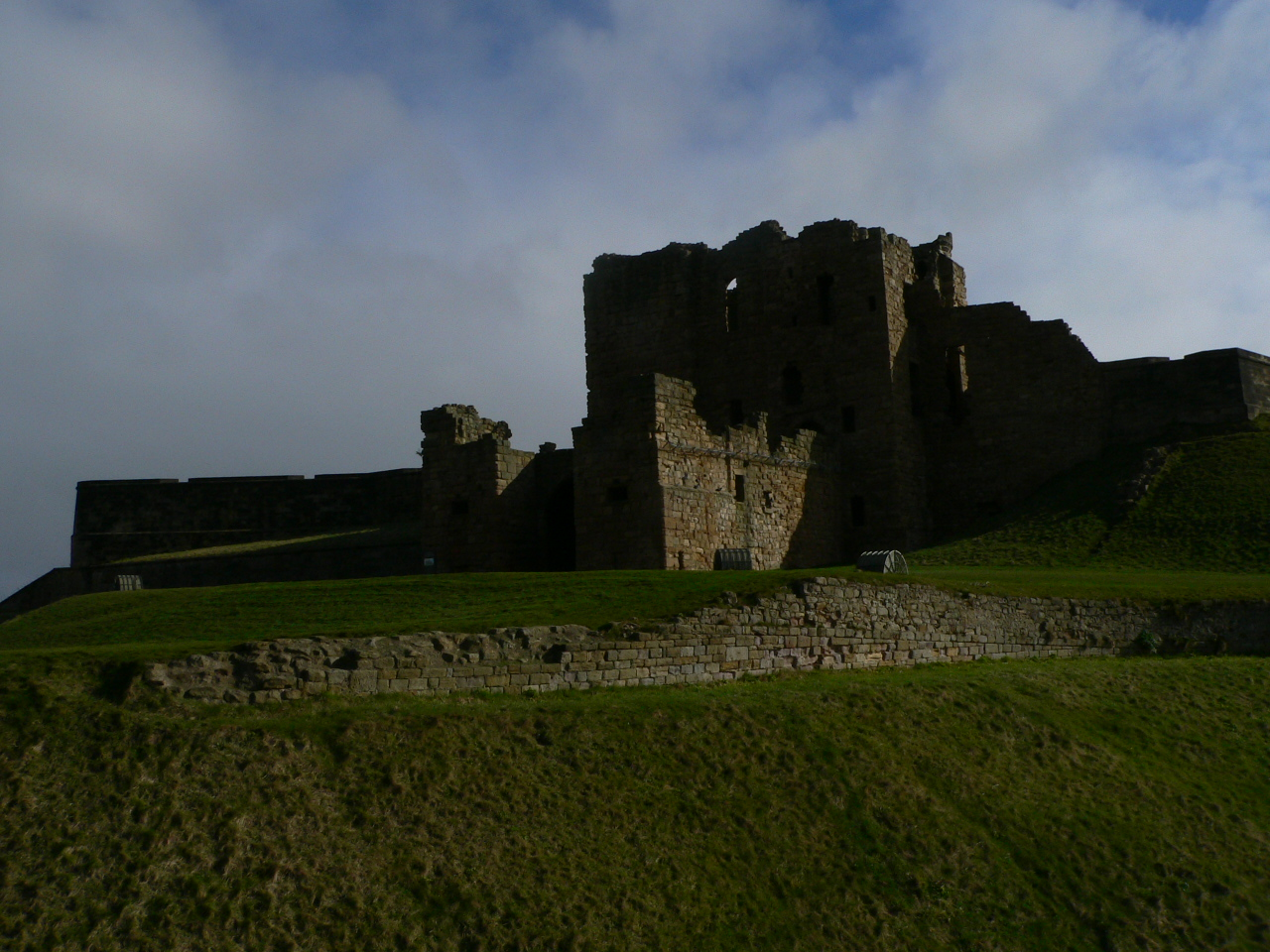 The landward face of Tynemouth Castle